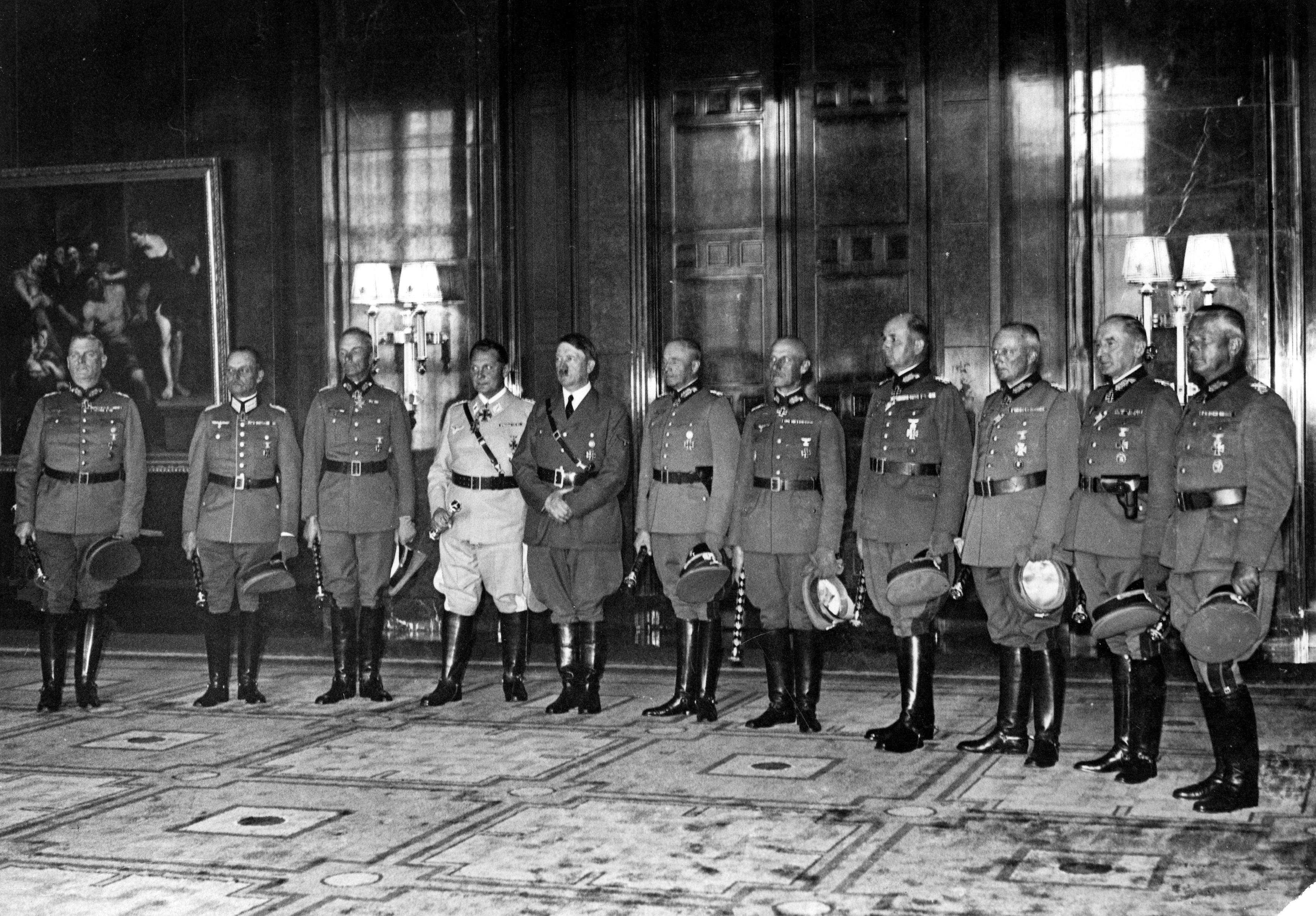 1940 Field Marshal Ceremony, the generals Fedor von Bock, Wilhelm Ritter von Leeb, Gerd von Rundstedt, Wilhelm Keitel, Walther von Brauchitsch, Günther von Kluge, Erwin von Witzleben, Walter von Reichenau, Wilhelm List, Albert Kesselring, Erhard Milch, Hugo Sperrle were promoted to Field Marshals. Hermann Göring was promoted to the specially created rank of Reich Marshal.